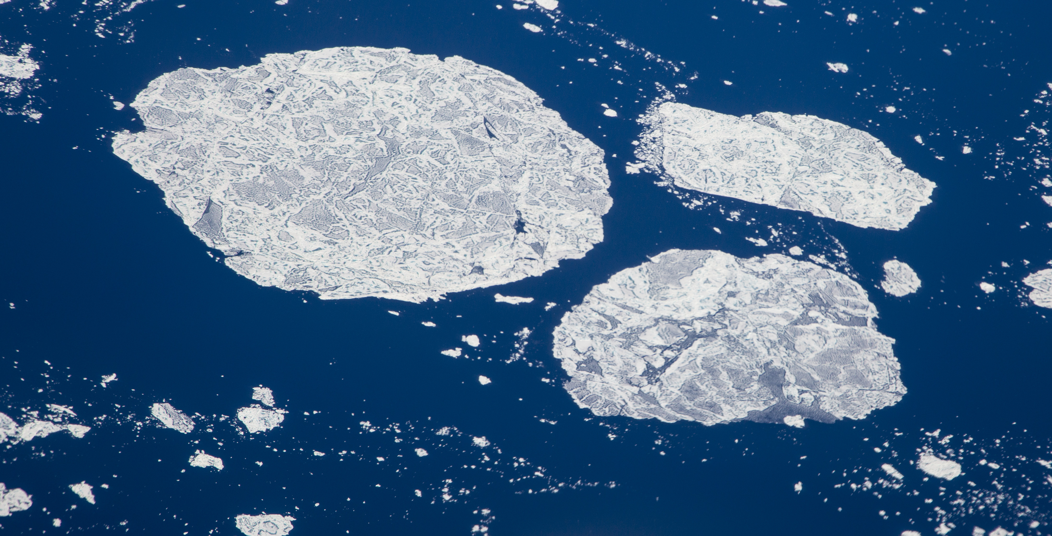 Drift ice in Hudson Strait, the entrance to Hudson Bay, in Nunavut Territory, Canada.